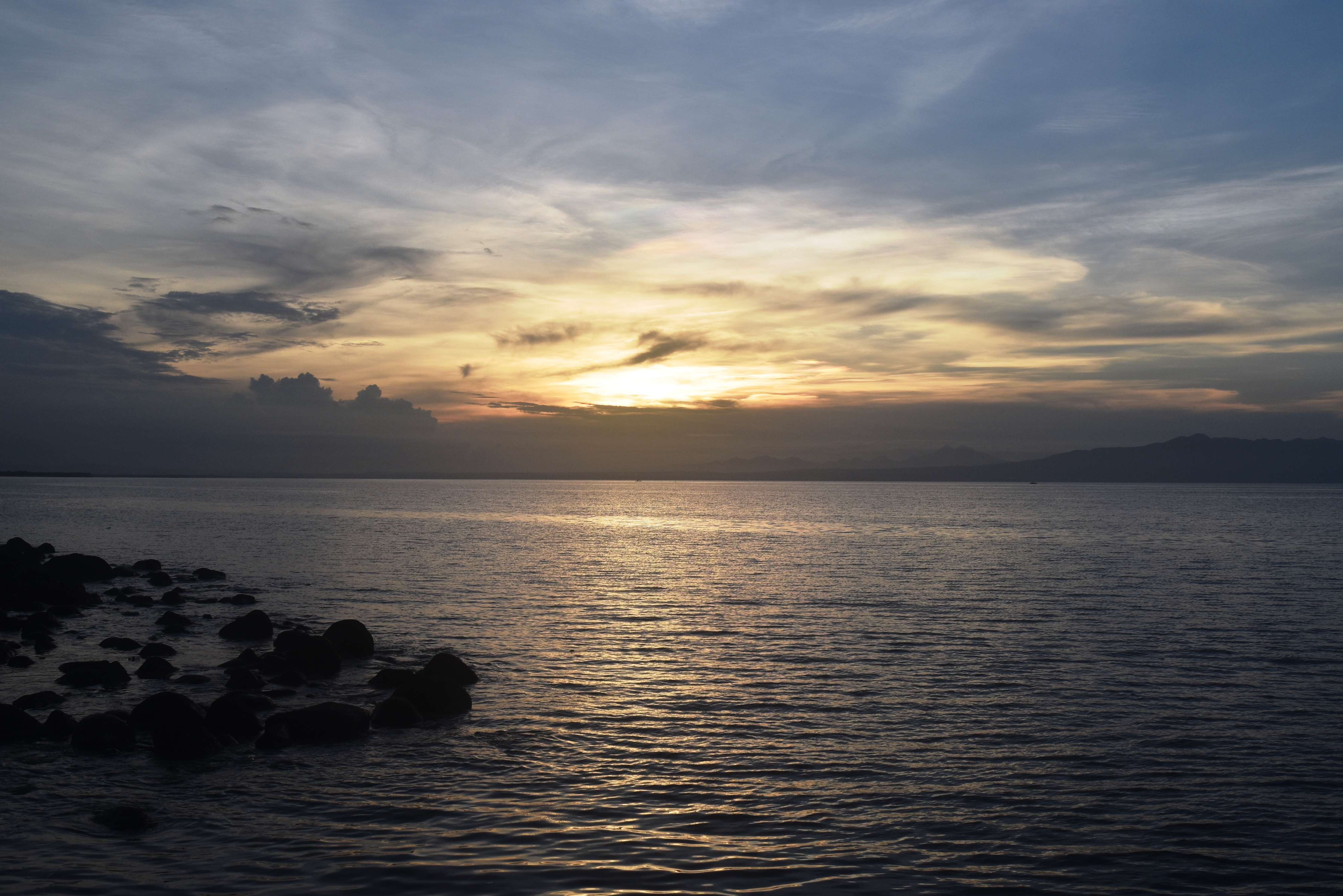 Sunset at Sabang, Calabanga Camarines Sur